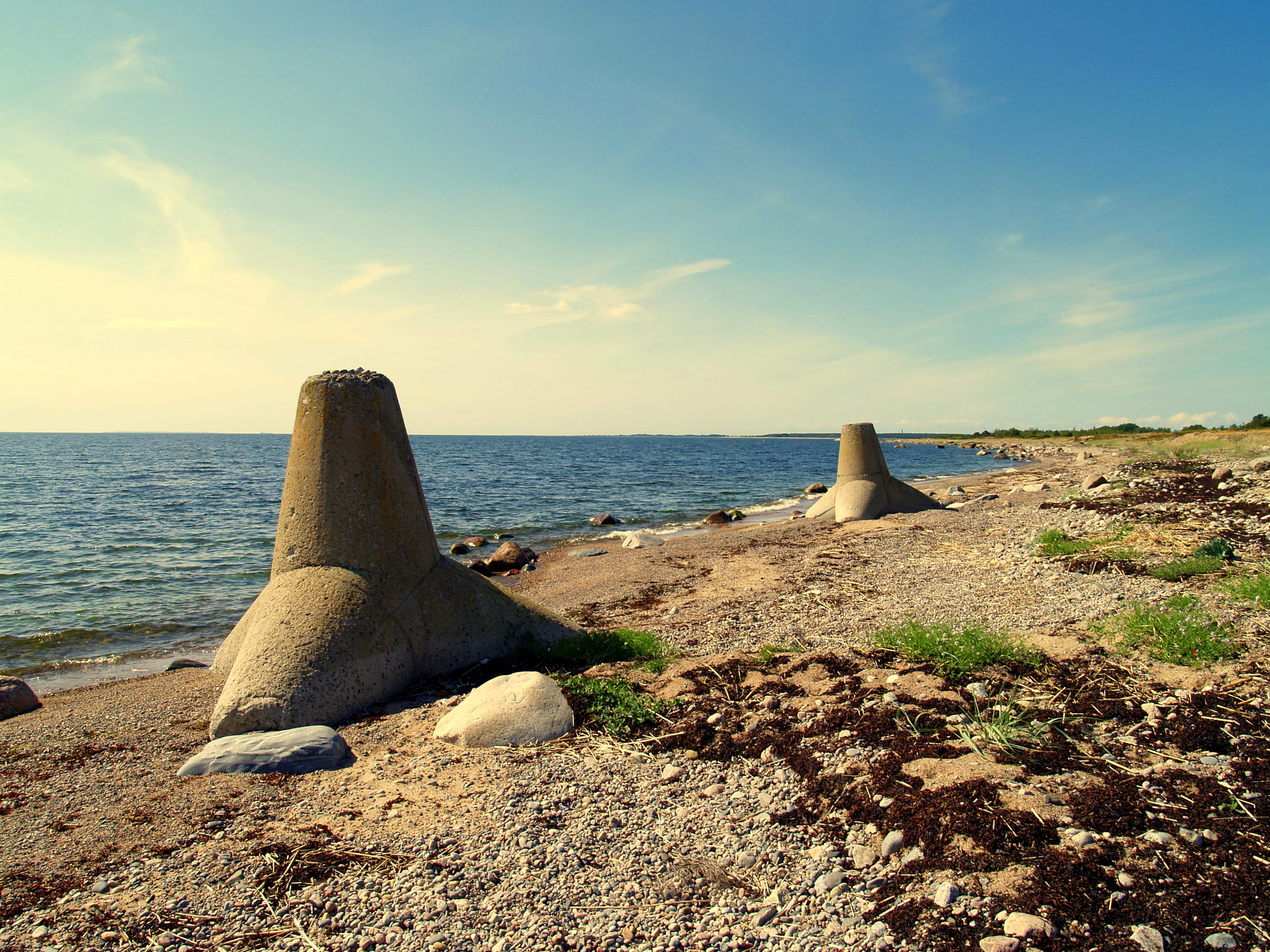 Coast of the island Aksi.